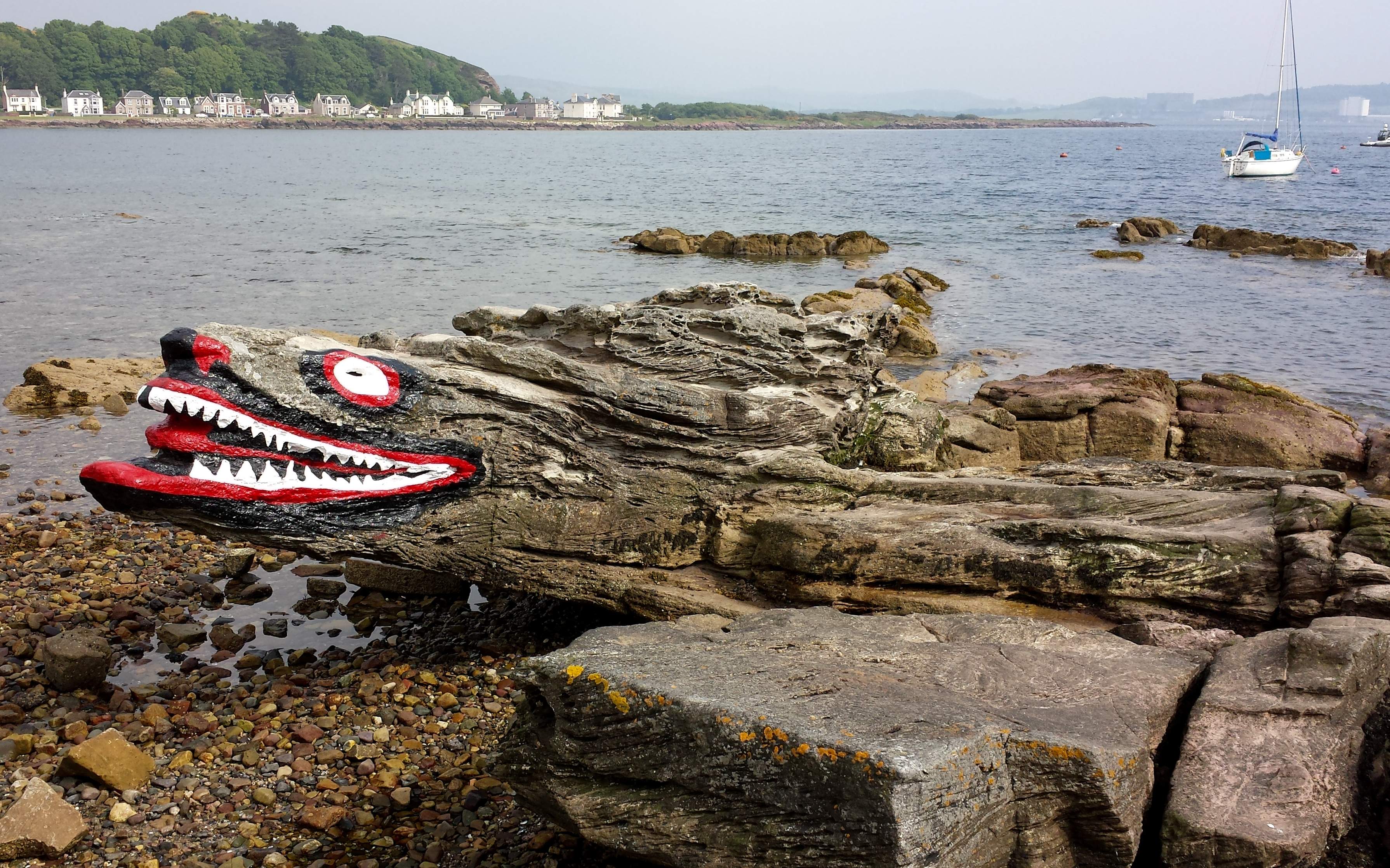 Crocodile Rock, Millport, Isle of Great Cumbrae, Scotland. This crocodile has been one of Scotland's best known landmarks since at least 1913.[1]